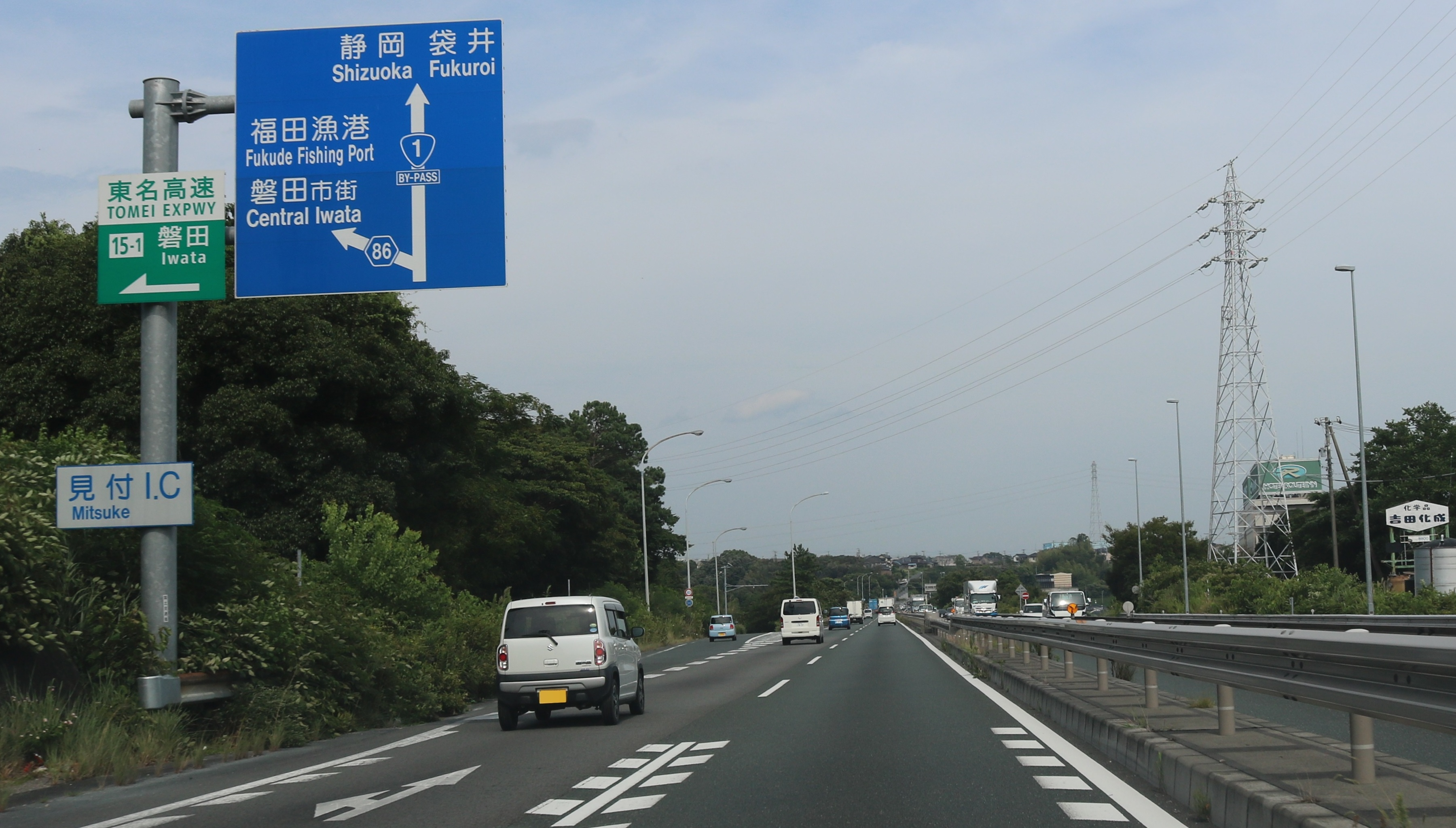 Mitsuke Interchange of Iwata Bypass of (Route 1) in Mitsuke, Shizuoka Prefecture, Japan.